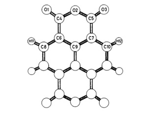 crystal structure of naphthalenetetracarboxylic dianhydride (NTDA)